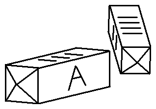 Stick dice used for the Danish board game Daldøs.